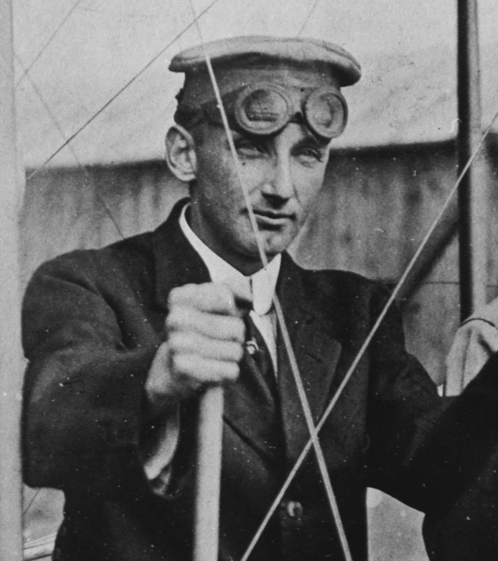 Scott Air Force Base namesake Col. Frank Scott, left, in the picture at left, with Pfc. James O’Brien.